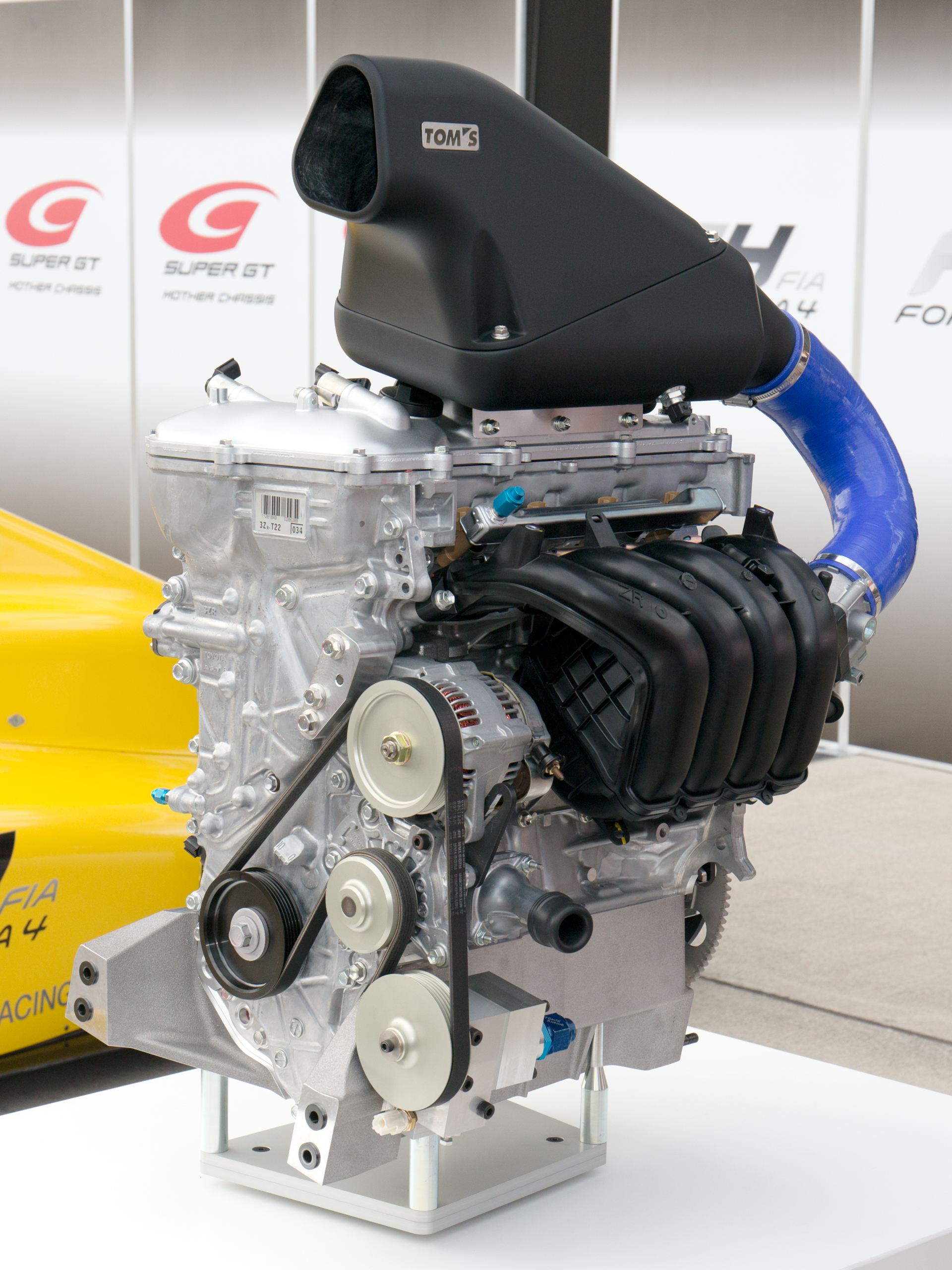 Super GT 2014 Rd.6 Suzuka 1000km: Dome F110's Toyota 3ZR engine